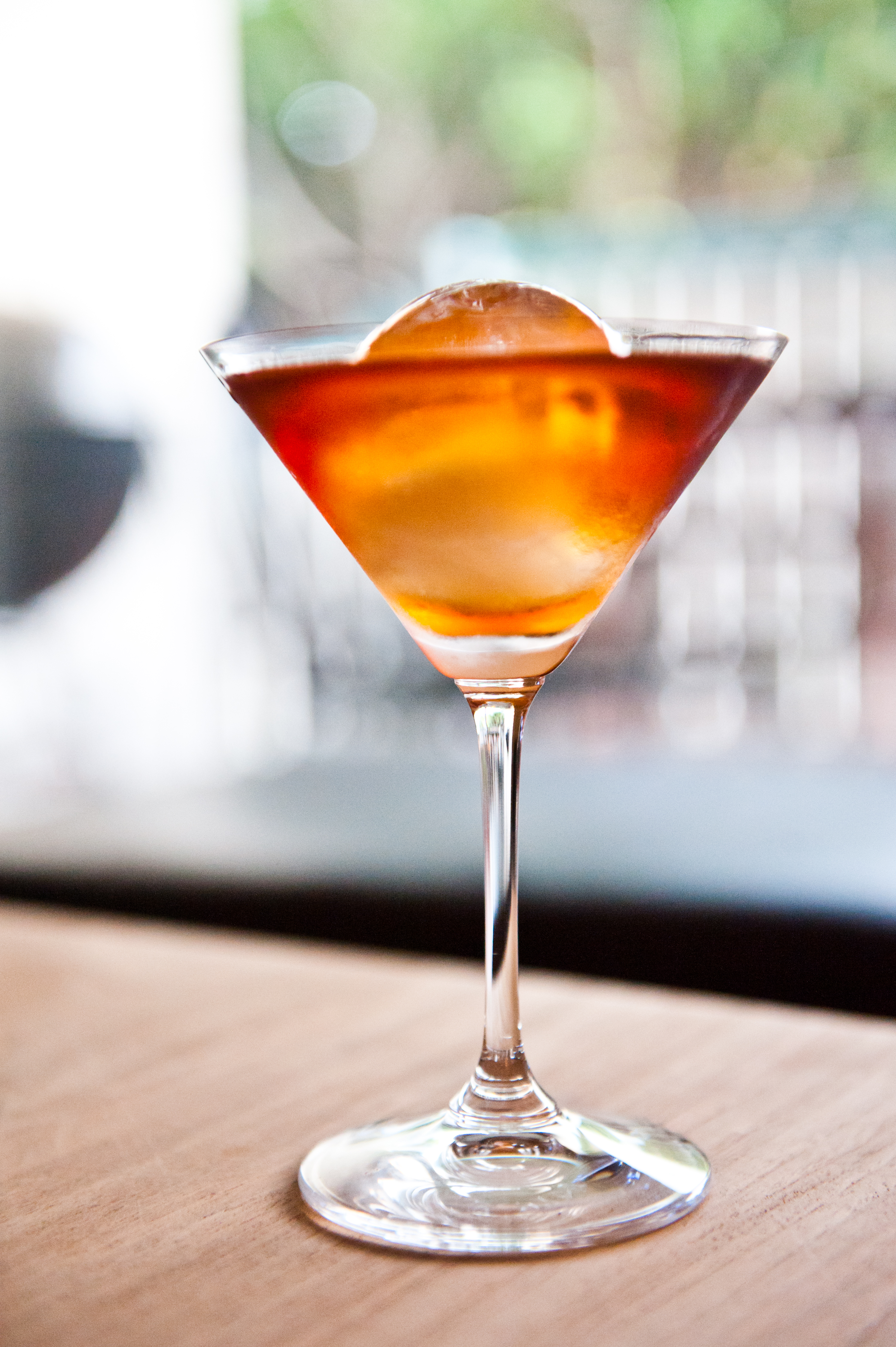 Manhattan cocktail with ice